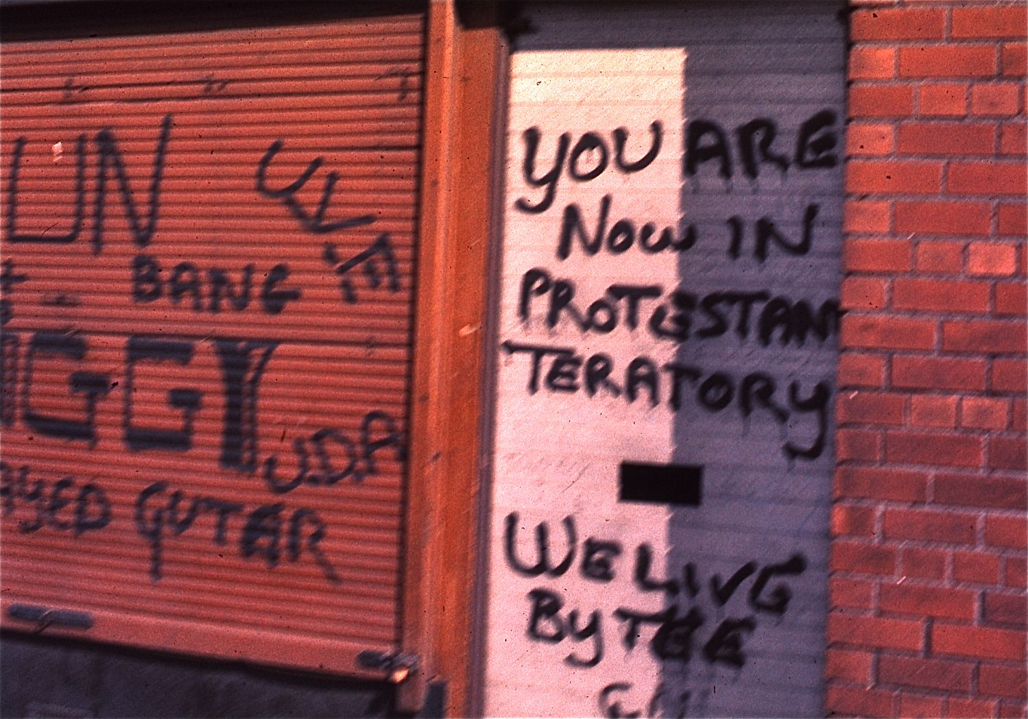 Protestant graffiti in Belfast, Northern Ireland, 1974, during The Troubles Other information Photo by George Garrigues